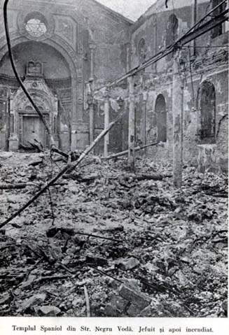 Sephardic Temple in Bucharest after it was robbed and set on fire (events occurring during the Legionary Rebellion and Pogrom)